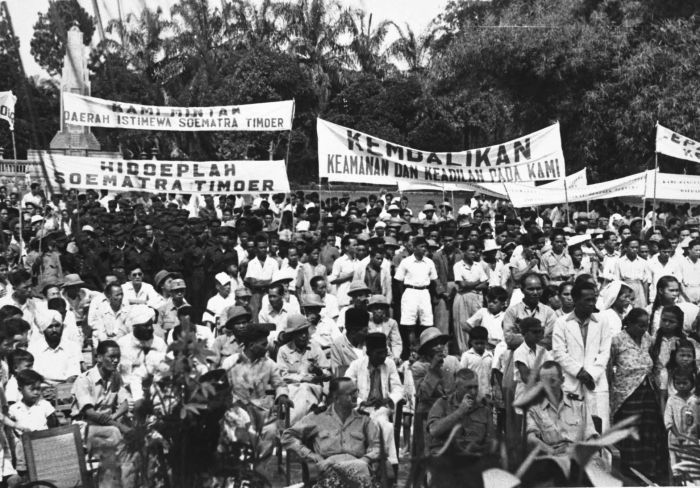 The Wali Negara Sumatera Timur visiting Pematangsiantar